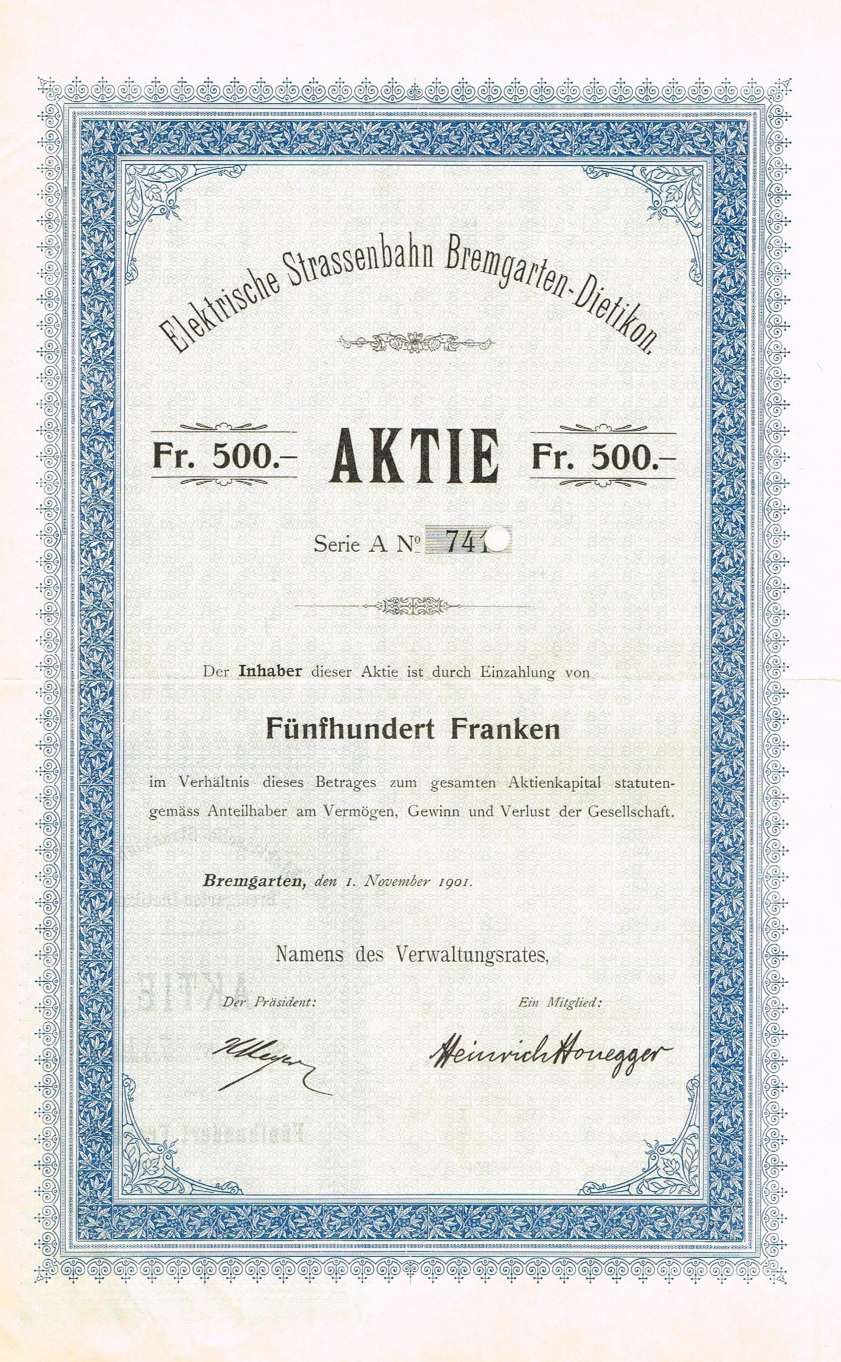 Share of the Elektrische Strassenbahn Bremgarten-Dietikon company, issued 1. November 1901